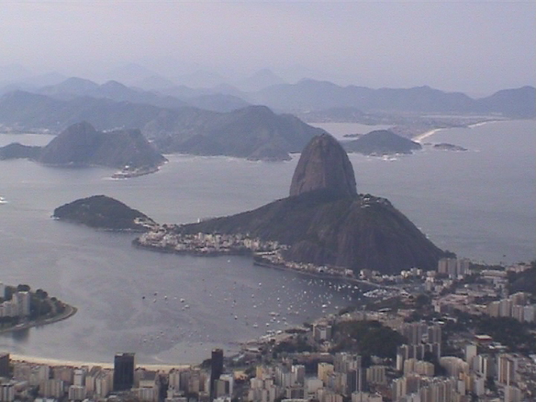 Panorama of Guanabara Bay. With Botafogo Bay and Rio de Janeiro in foreground.